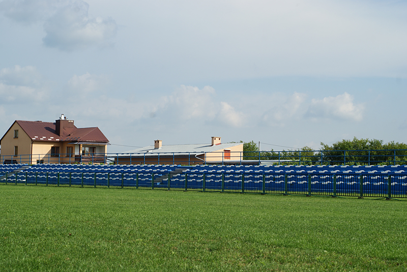 TG Sokol Stadium in Sokolow Malopolski, Poland.